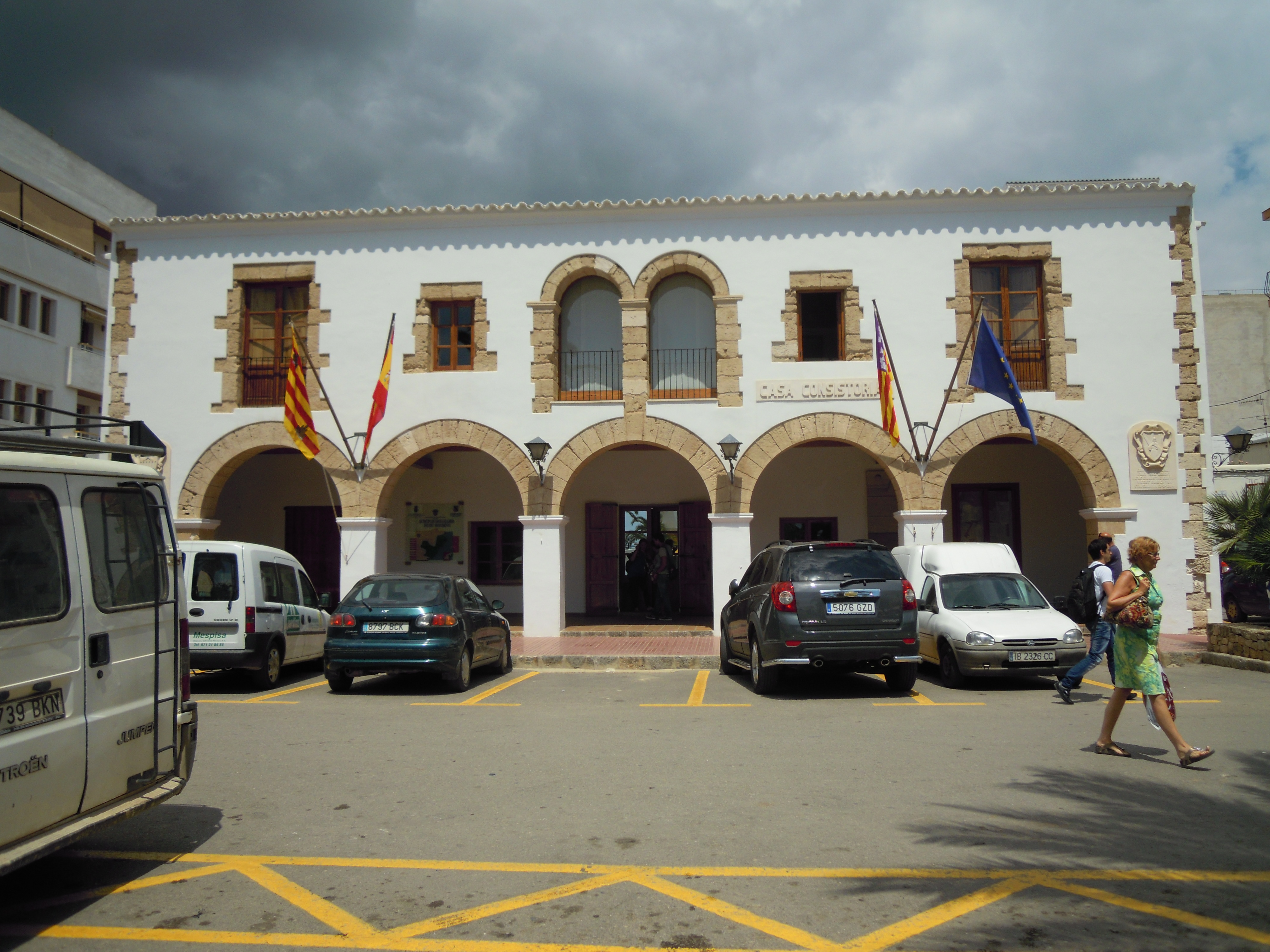 The Ajuntament (Town Hall) located on Carrer de Sant Vicent in the town of Santa Eulària des Riu, Ibiza, Balearic Islands, Spain